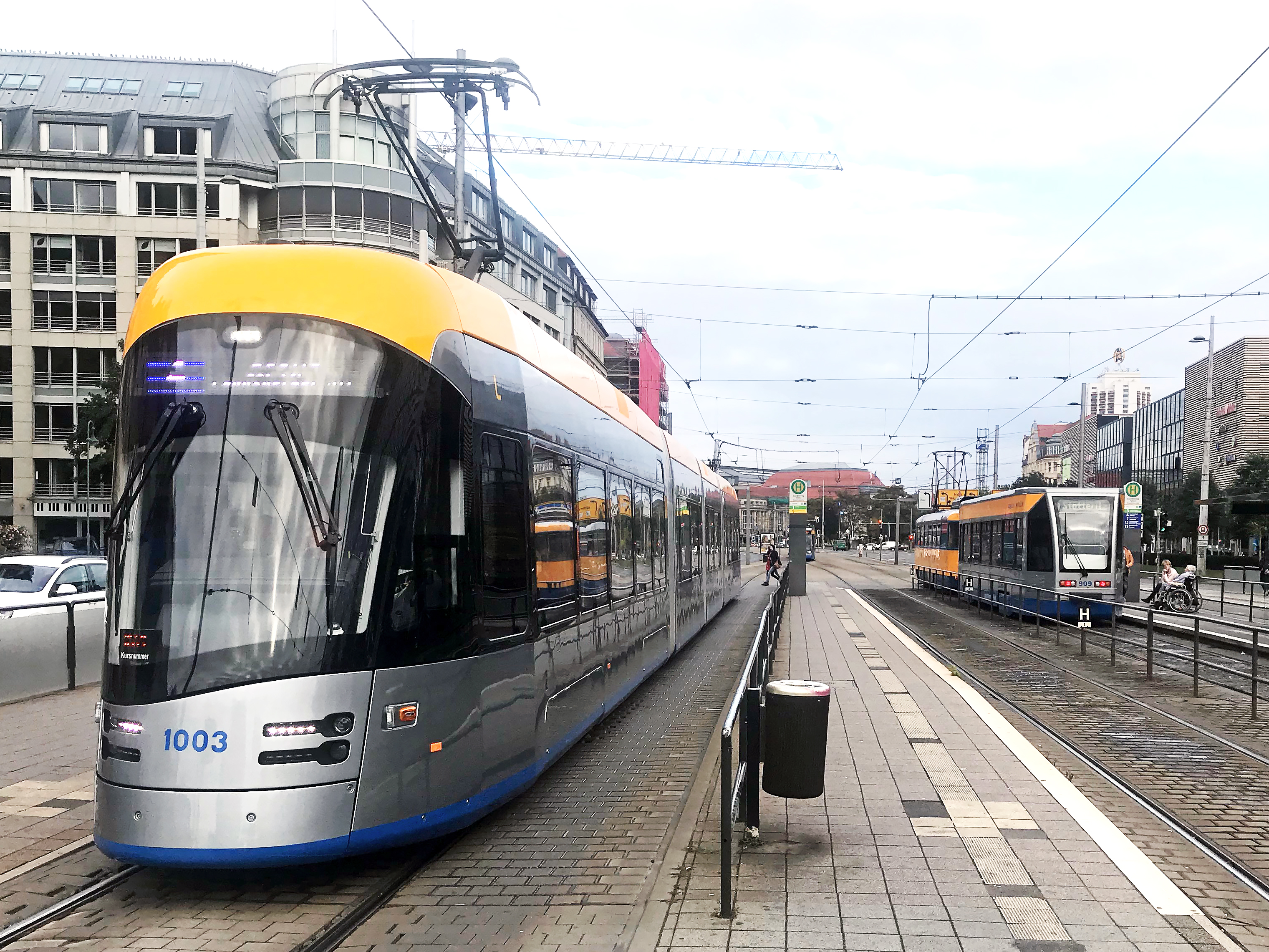 Modern tram NGT10-XL of the Leipzig tram system at Goerdelerring station. In background: old Tatra tram T4D with low-floor coach.